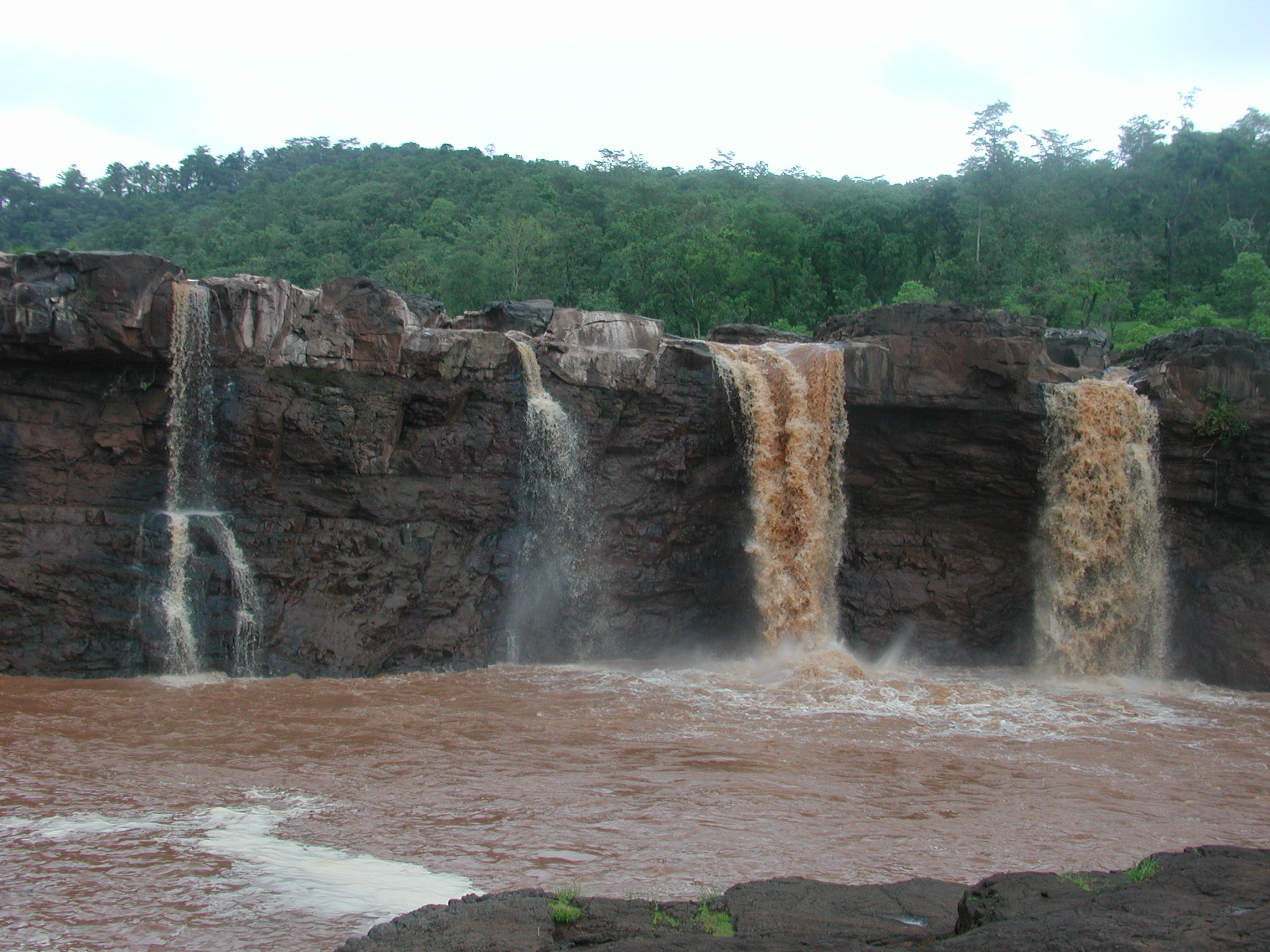 "Photo of Gira falls located a few kilometers away from Saputara."